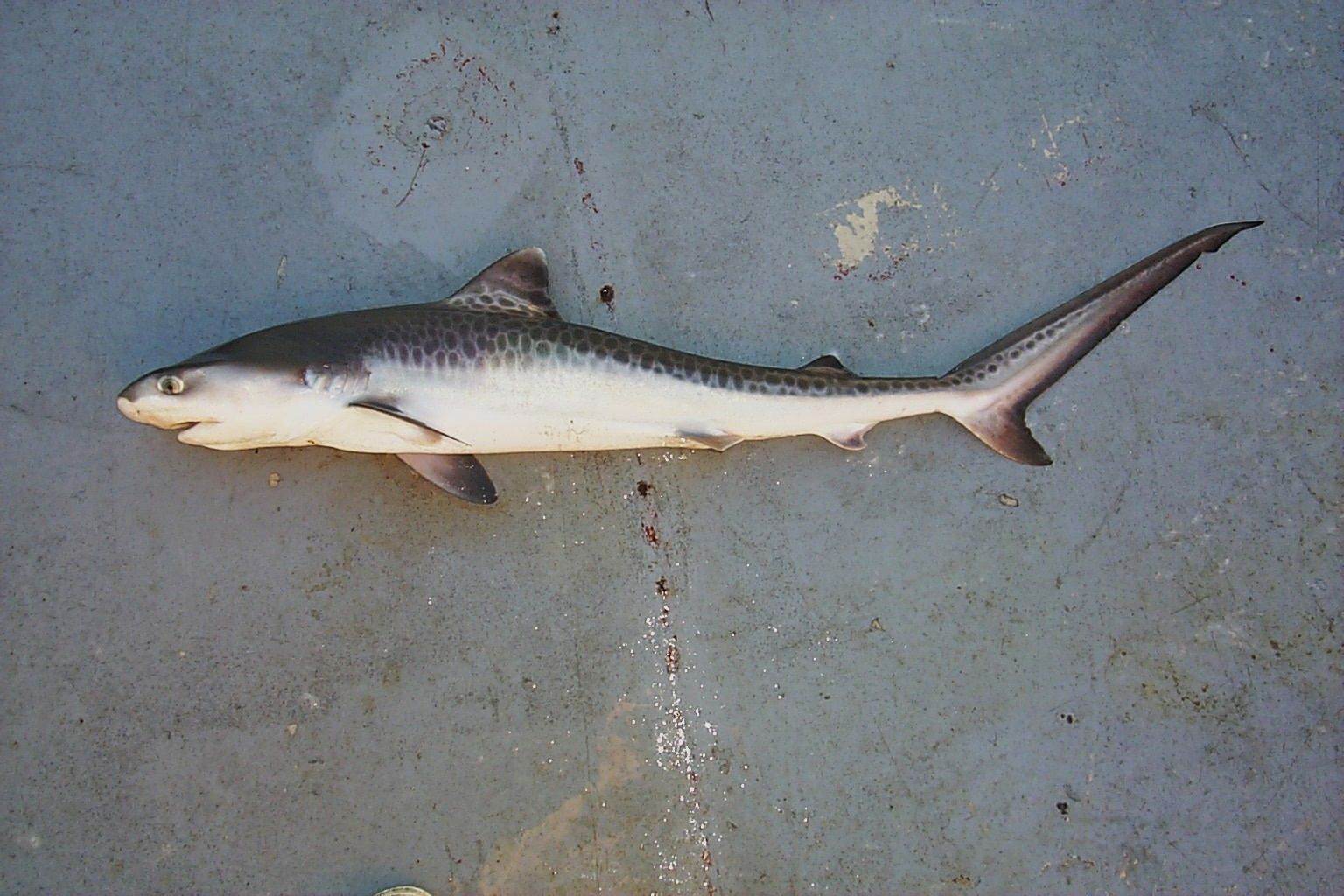 Tiger shark ( Galeocerdo cuvier ). Gulf of Mexico.